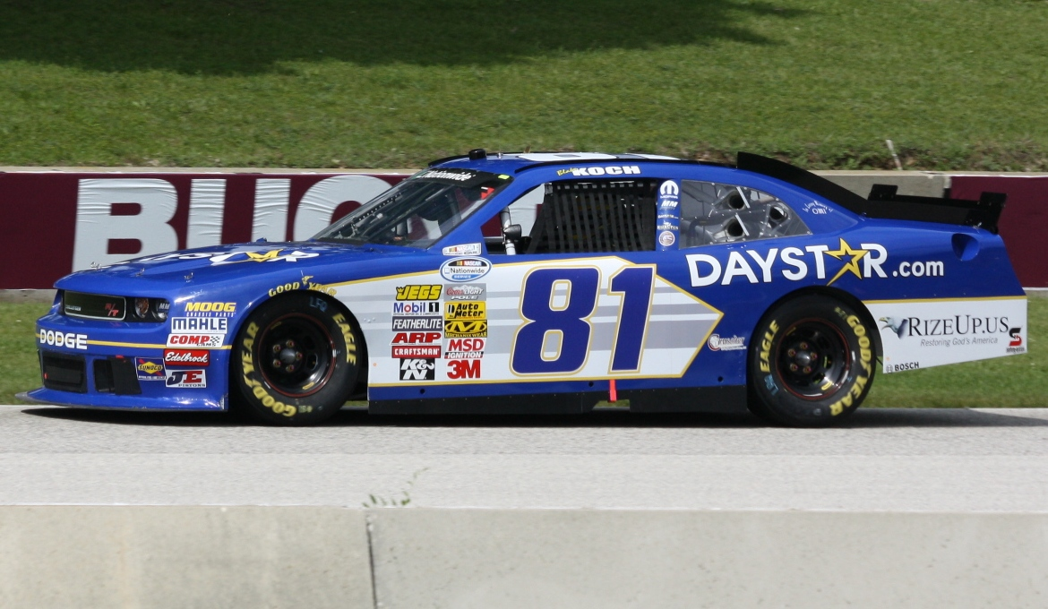 NASCAR driver Blake Koch racing his stock car at Road America at the 2011 Bucyros 200 Nationwide Series race.